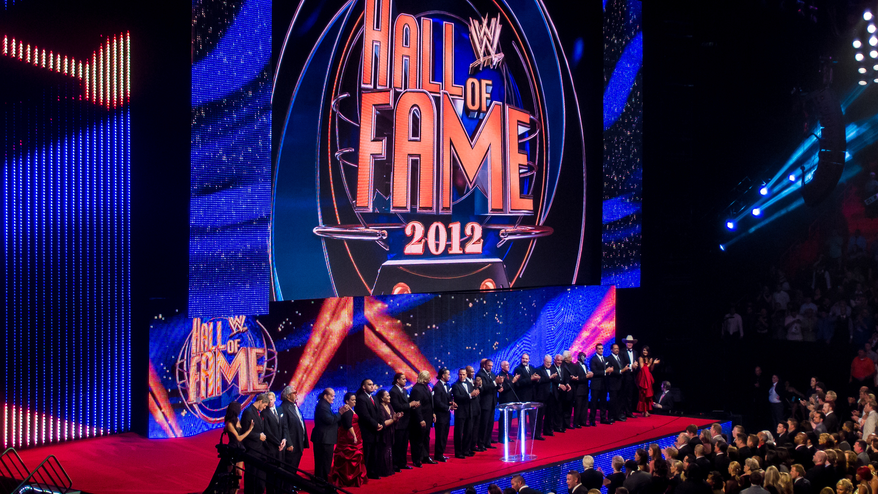 WWE Hall of Fame - Class of 2012